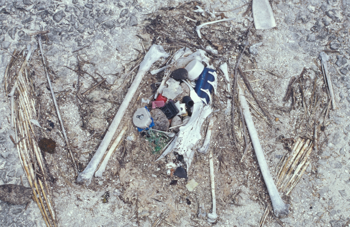 Dead Laysan Albatross chick remains with plastic , Eastern Island, Midway Atoll April 5, 1999